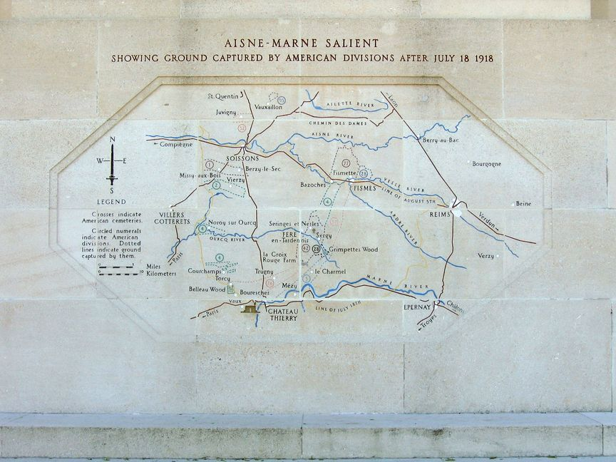 Battle map on the Château-Thierry American Monument corresponding to the 2nd Battle of The Marne.